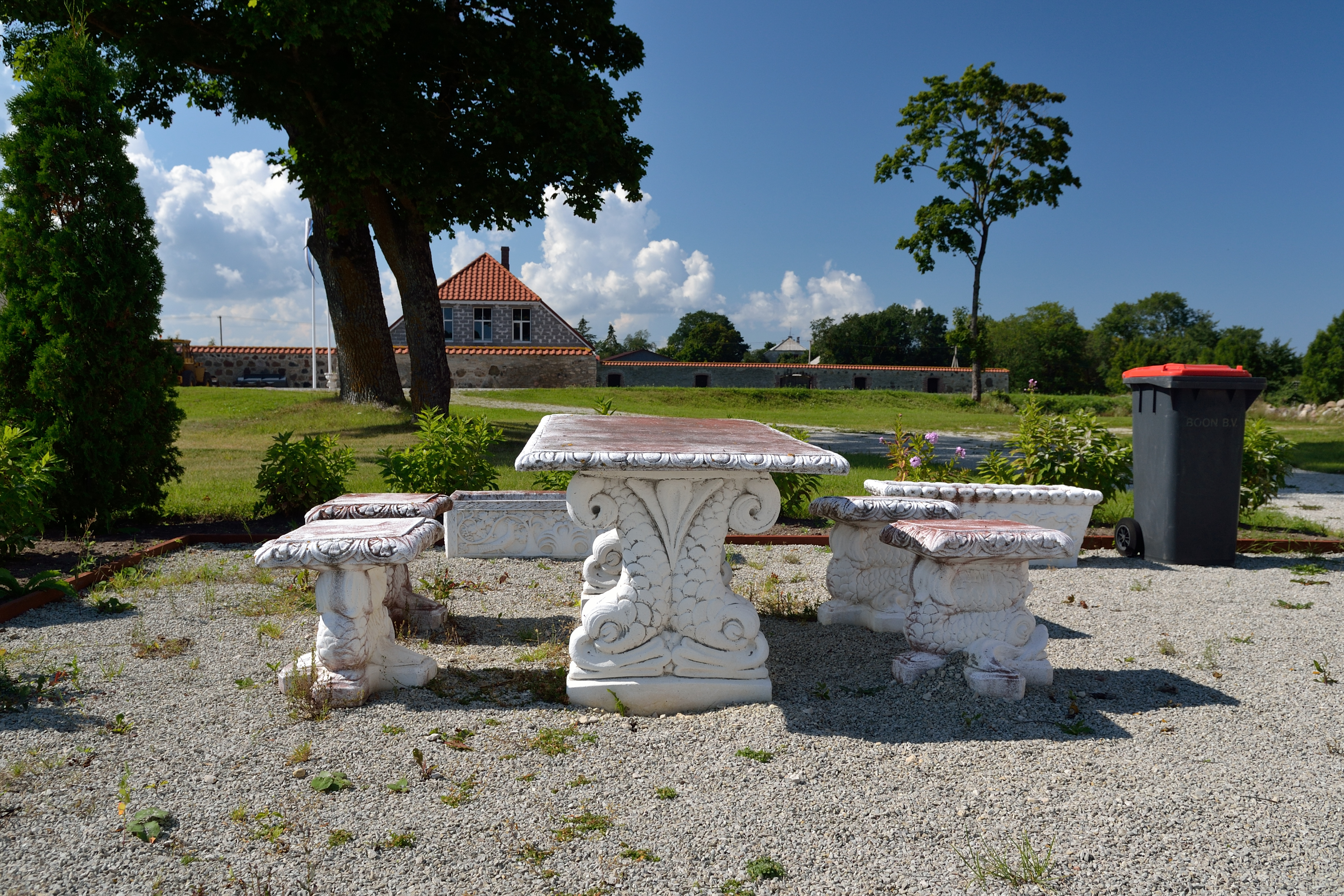 Malla manor (Estonia)